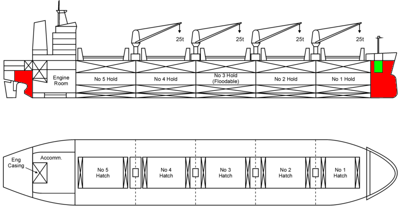 Edited over previous (Bulk carrier general arrangement english.png) of same category uploaded by Rémi Kaupp.